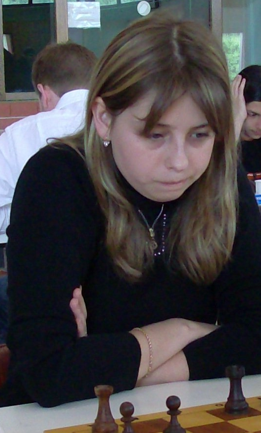 Natalia Zdebskaja, chess grandmaster from Ukraine